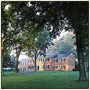 Glen Burnie Historic House